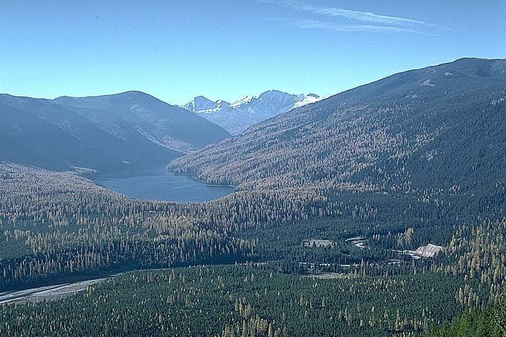 United States Forest Service photo of Big Salmon Lake, Bob Marshall Wilderness, Montana.